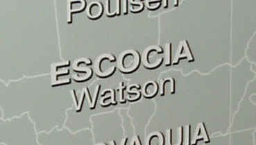 Screenshot of Real Madrid's wall of internationals, focussing on Scottish player John Fox Watson Cut-out of a larger picture